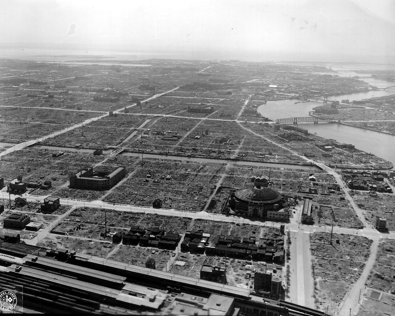 Bomb damage to Tokyo following United States raids on the city during World War II